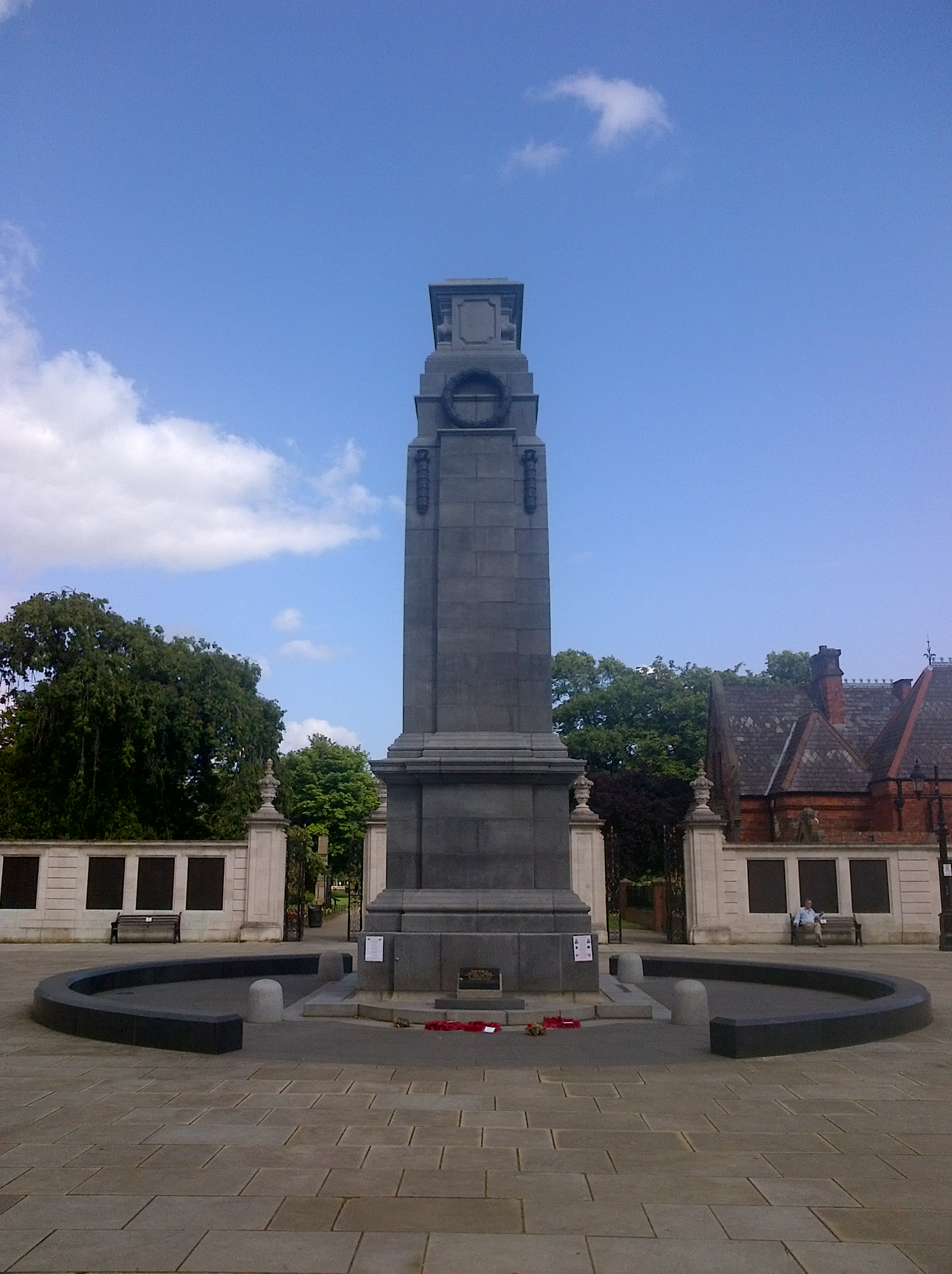 This is the Cenotaph in Middlesbrough where people pay respect to the soldiers who died in the first and second world war and other wars which have took place since.